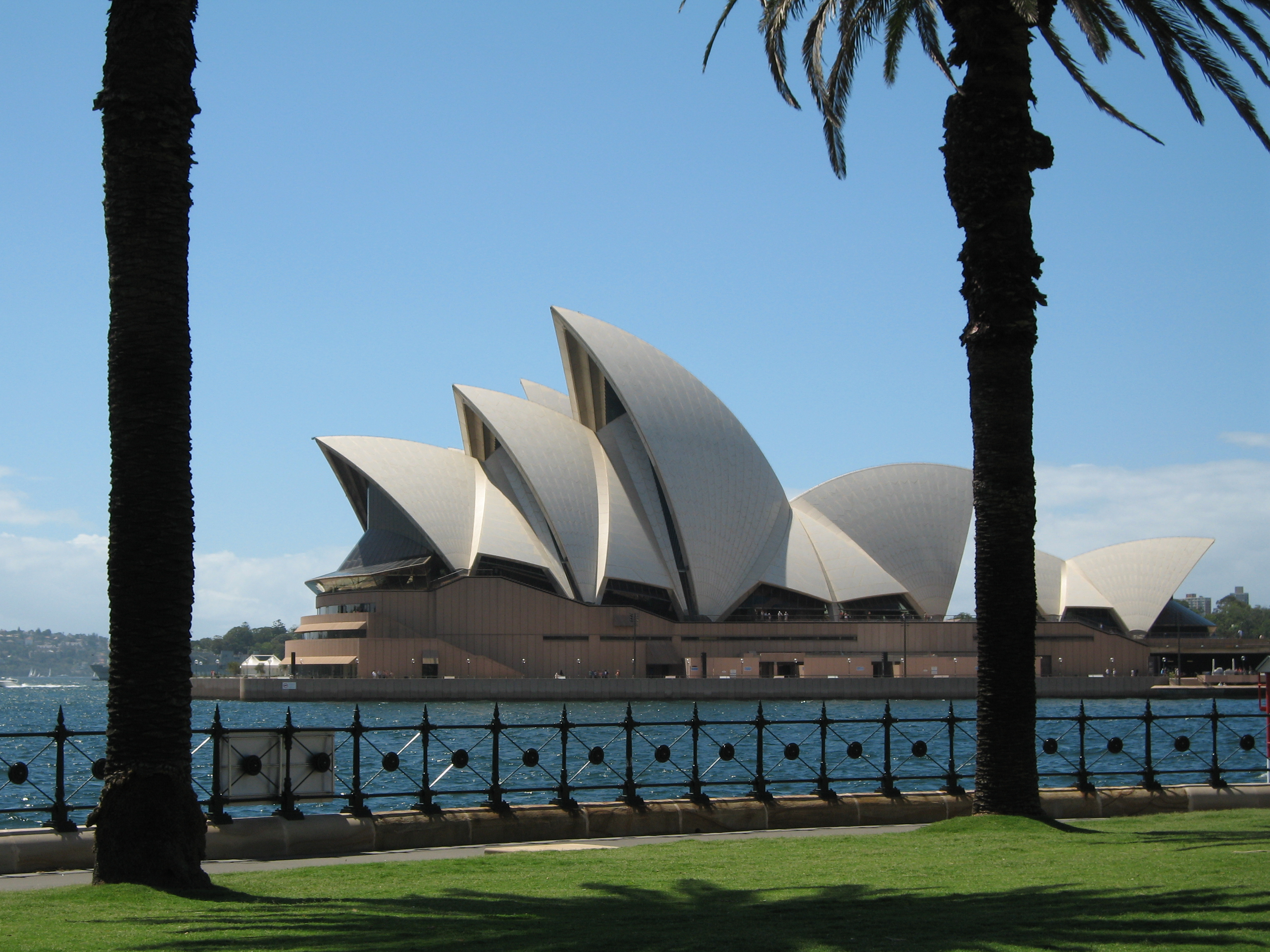 Sydney Opera House from Dawes Point, Sydney, Australia.